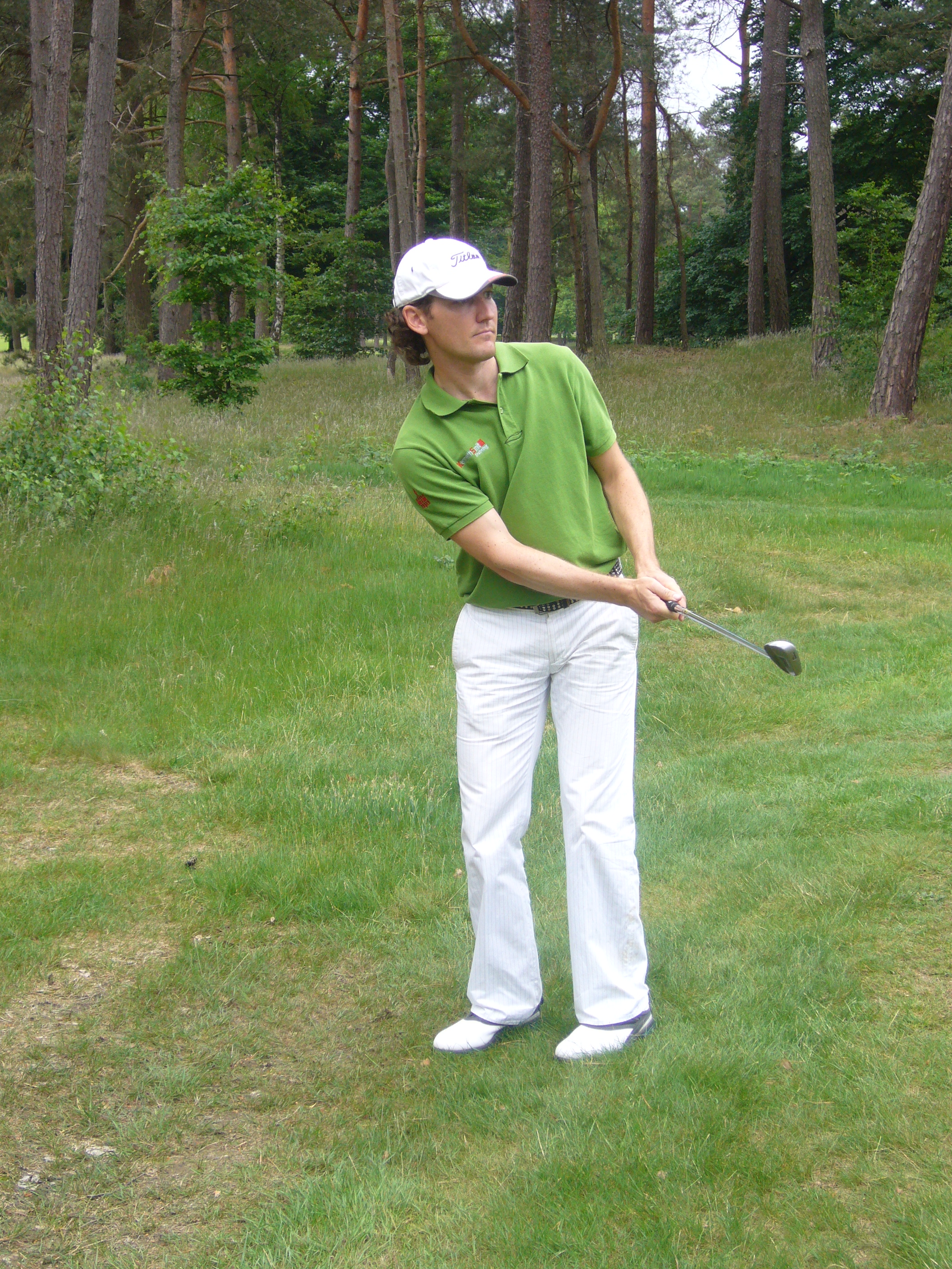 Simon Crosby, Nederlands golfprofessional